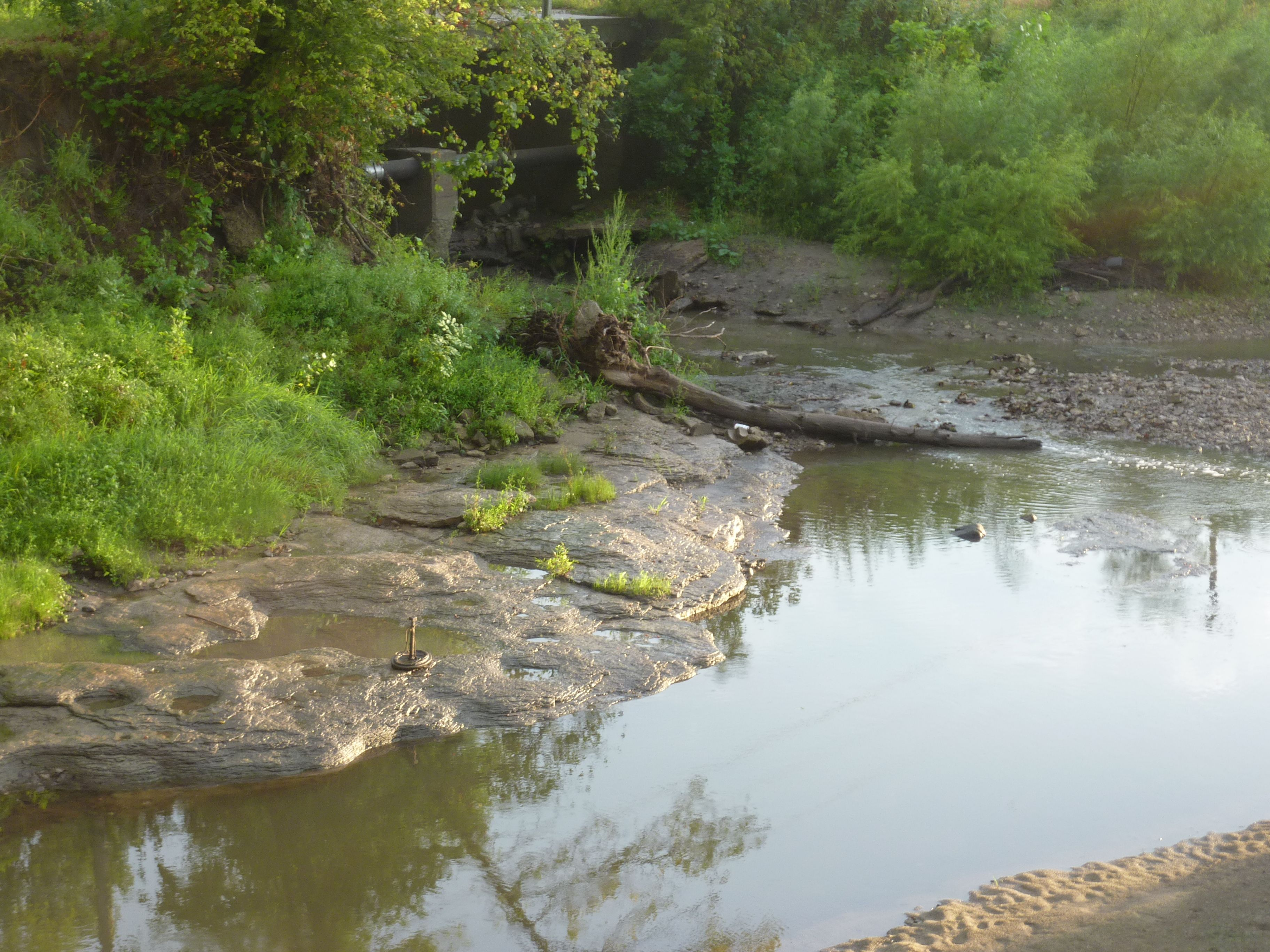 Limestone in the Bethany Falls formation in Bethany, Missouri Limestone from the formation is used extensively in architecture of buildings of Kansas City and St. Joseph.